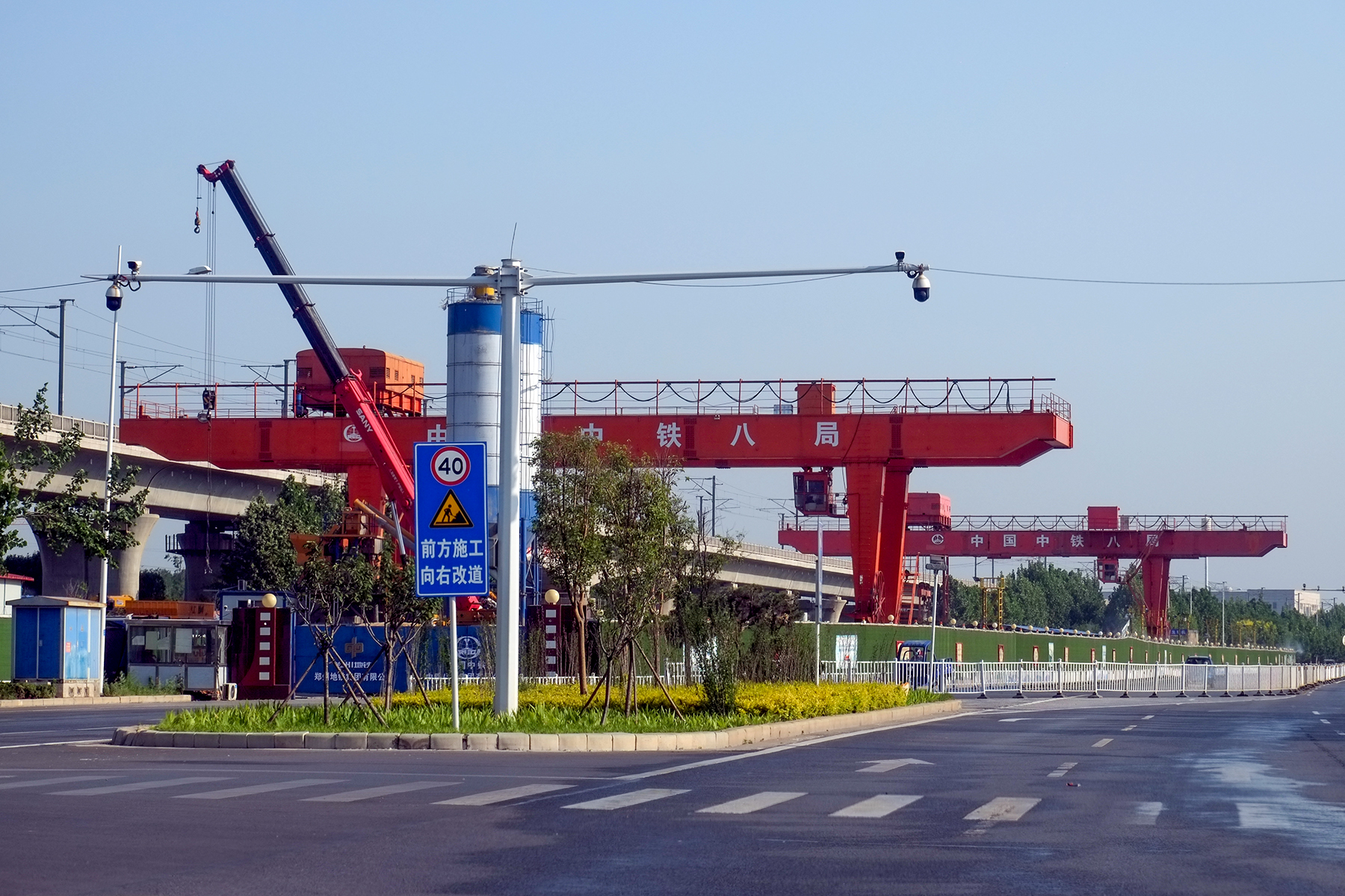 Construction Site of Sidongsun Station of Zhengzhou Metro Line 17